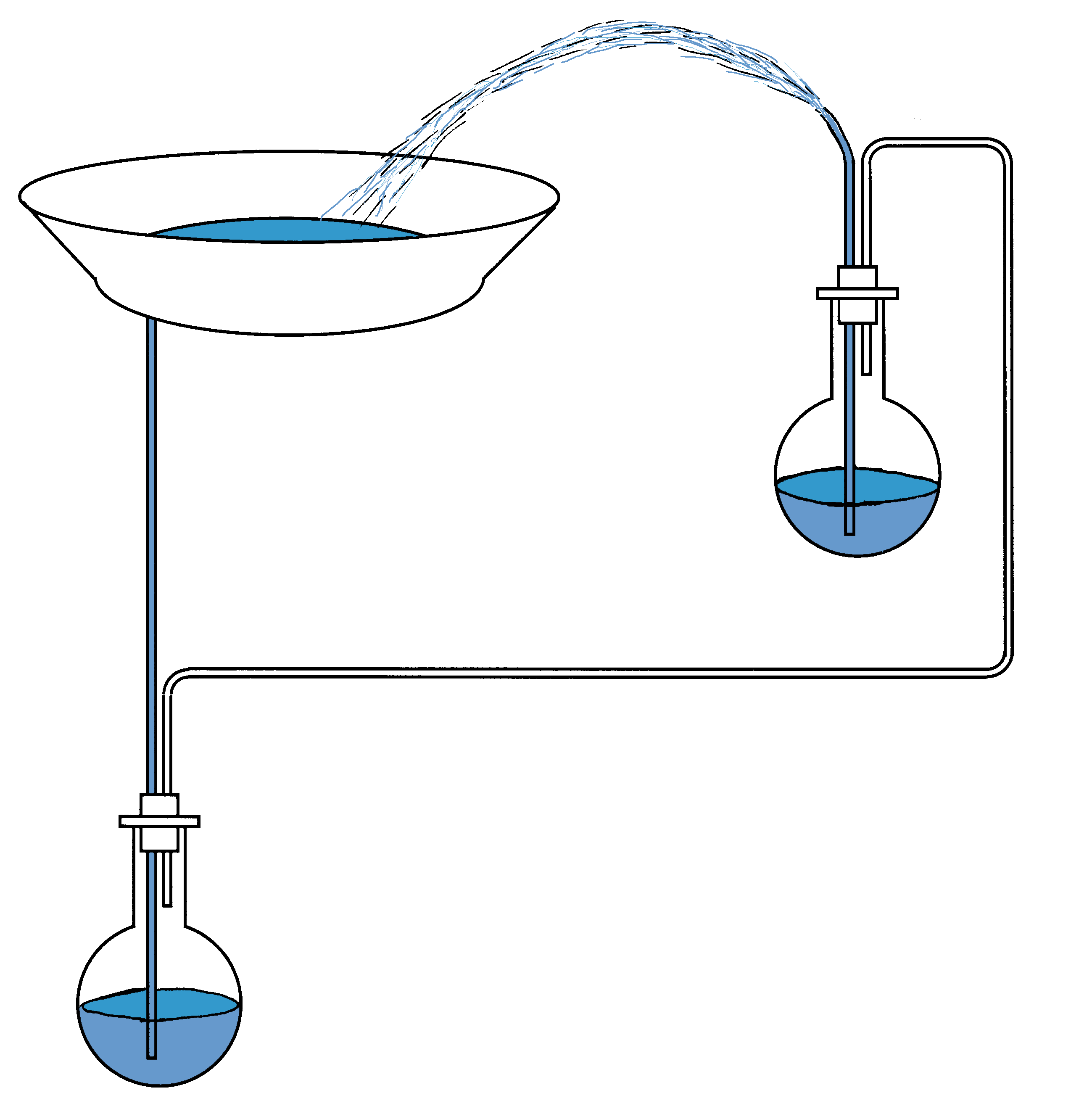 I made it. I am licencing it under the GNU Documentation License. -- Nunh-huh 05:41, 10 December 2005 (UTC)